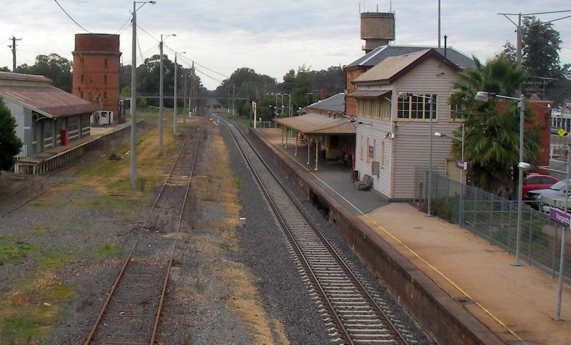 Wangaratta railway station from the pedestrian overbridge